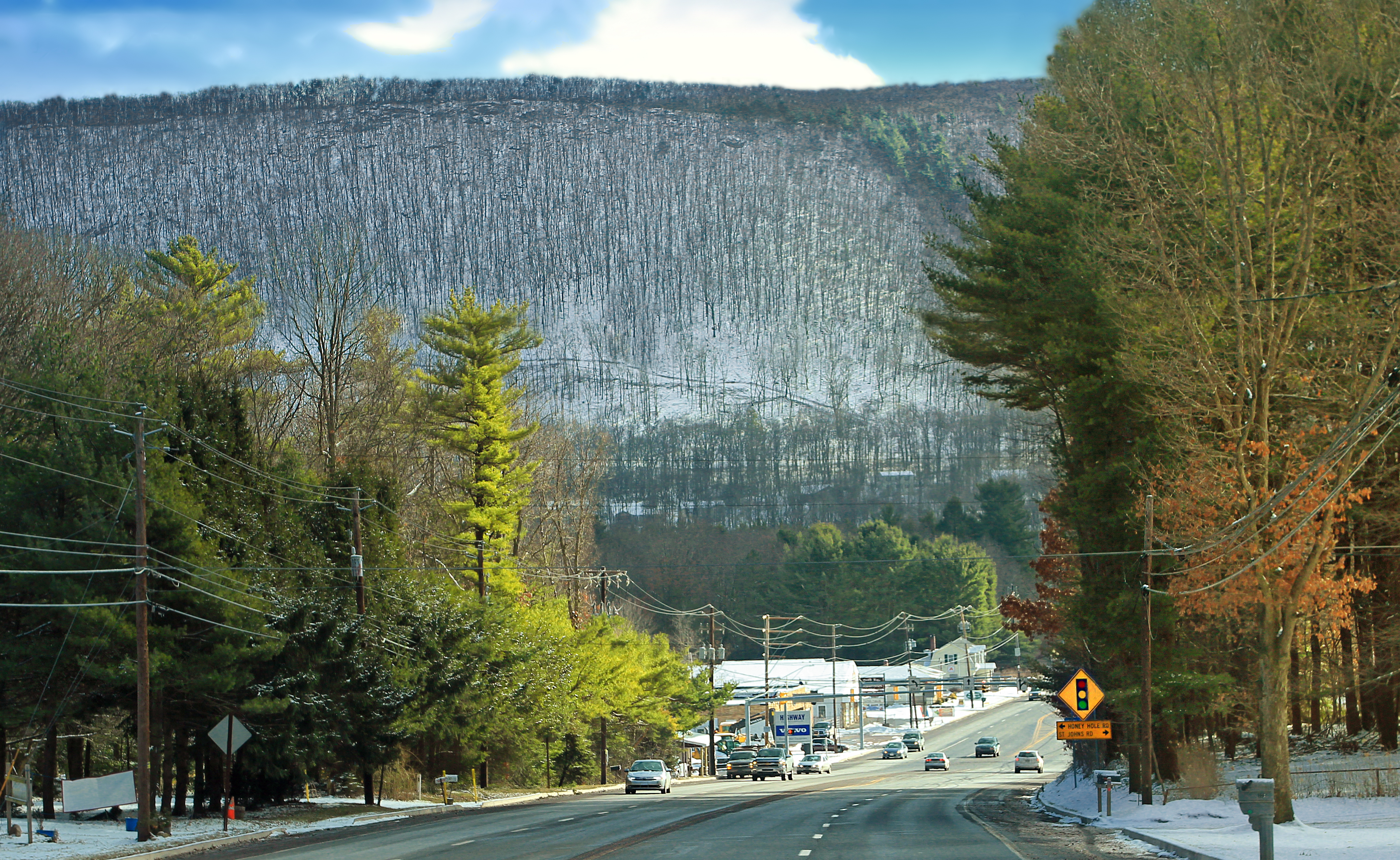 PA Route 309, Luzerne County. Green Mountain rises steeply several miles to the south. The road ascends the mountain and levels off as it approaches the city of Hazleton.